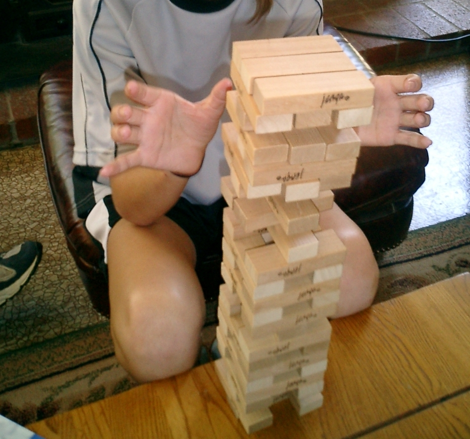 A game of Jenga in progress.